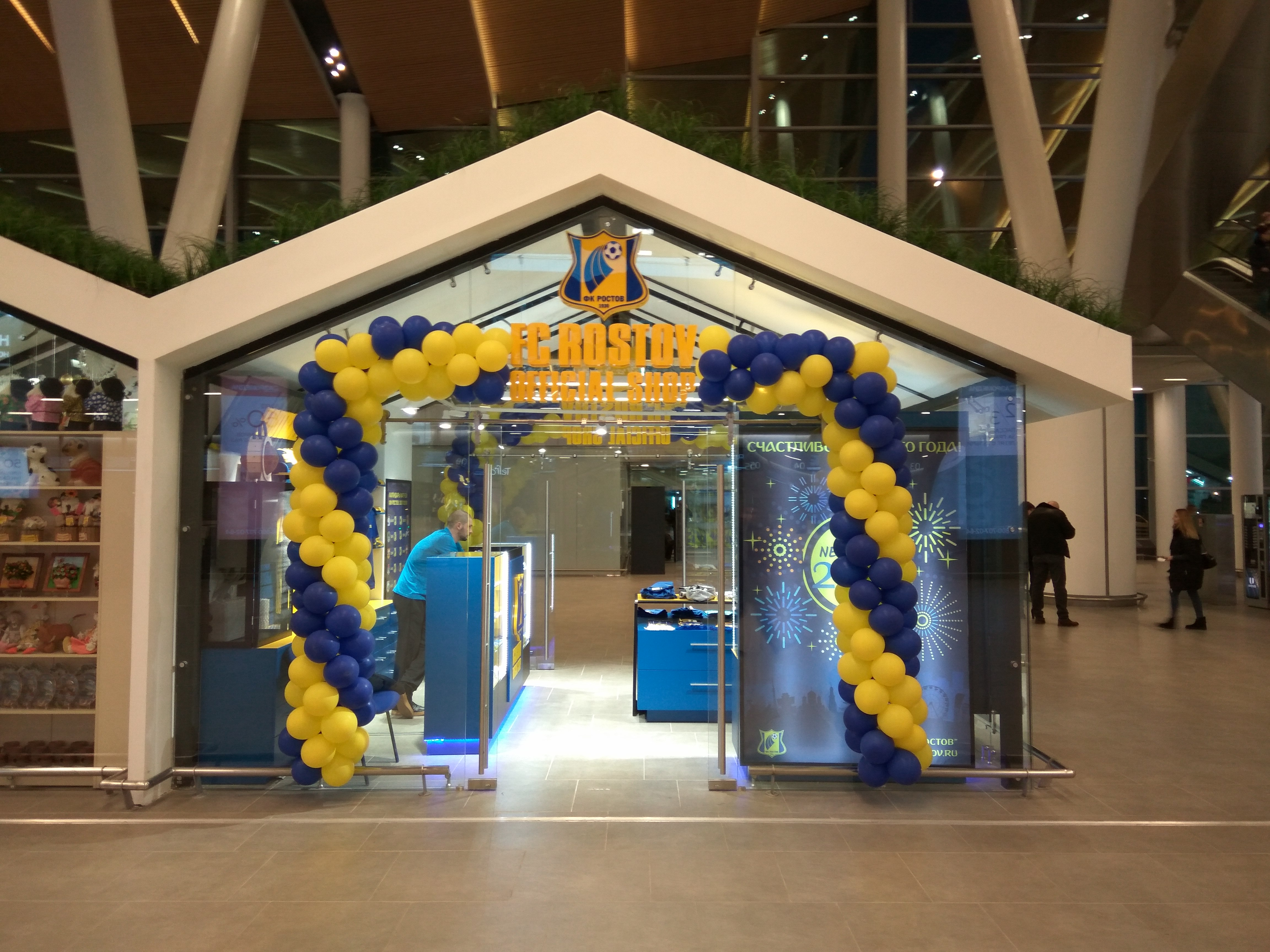 Platov International Airport, Rostov-on-Don